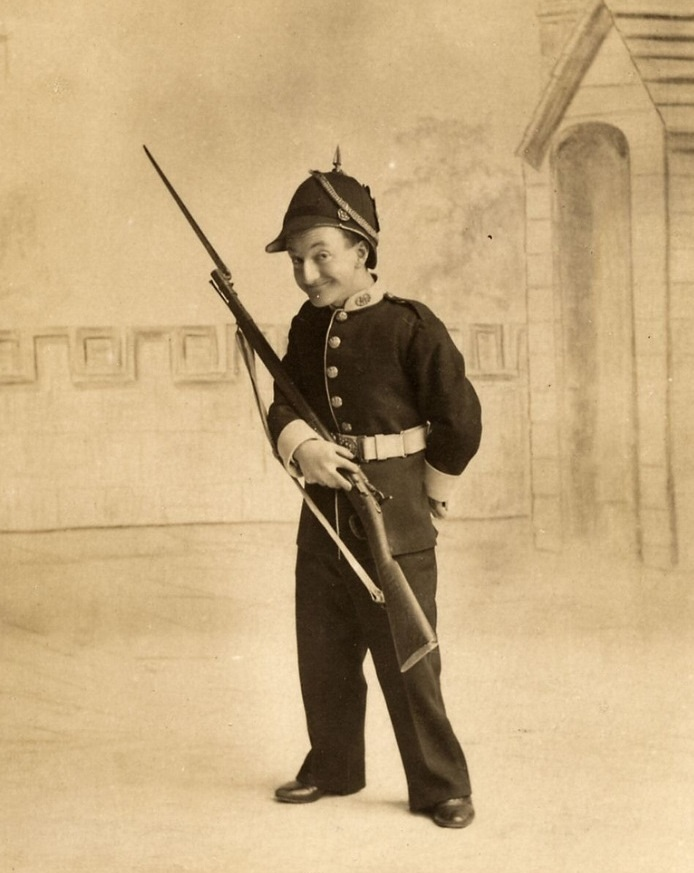 The English music hall comedian Little Tich on stage as a soldier c. 1890s.